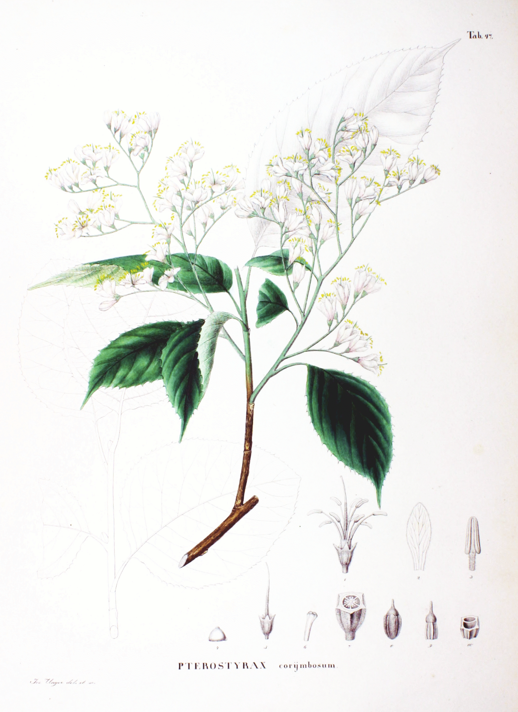 Plate from book